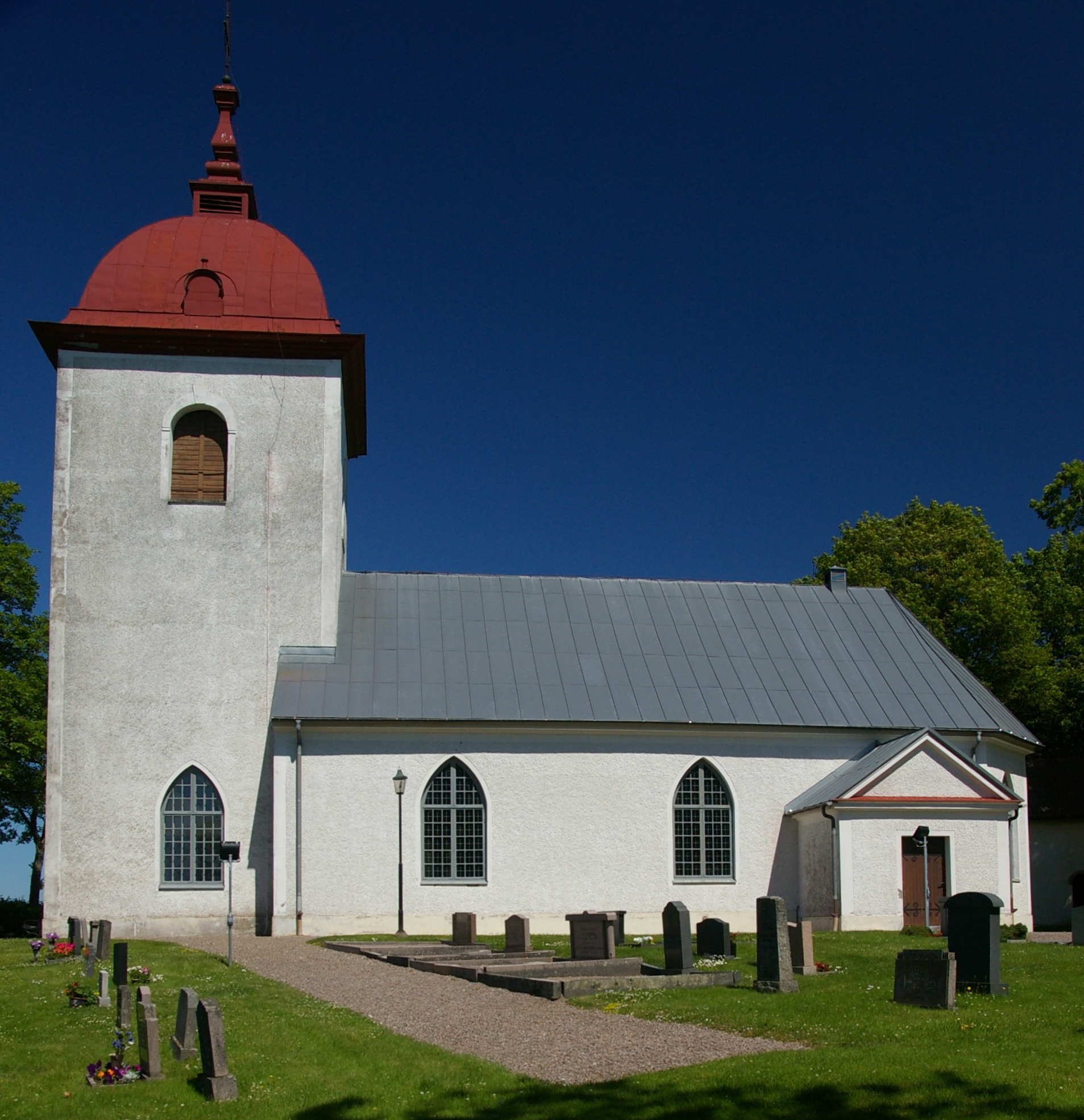 Acklinga kyrka (Swedish:Church of Acklinga) in Västergötland, Sweden